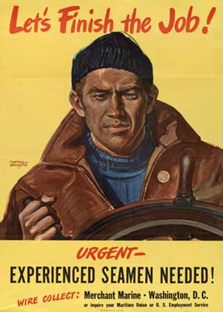 "Let's finish the job! Urgent -- experienced seamen needed! Artist: , 1944 Dimensions: 28 x 20 inches Published [Washington, D.C.] : U. S. GPO